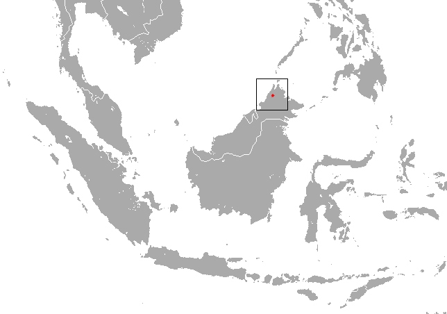 Black Shrew (Suncus ater) range; Borneo.